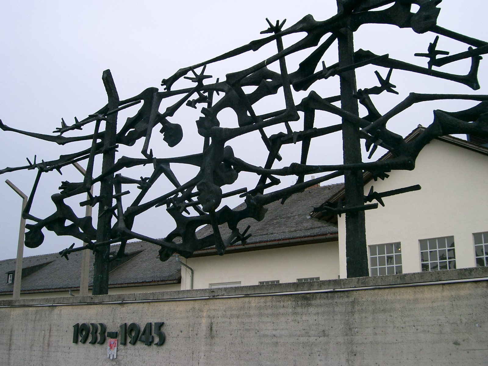 A Memorial in Dachau Concentration Camp